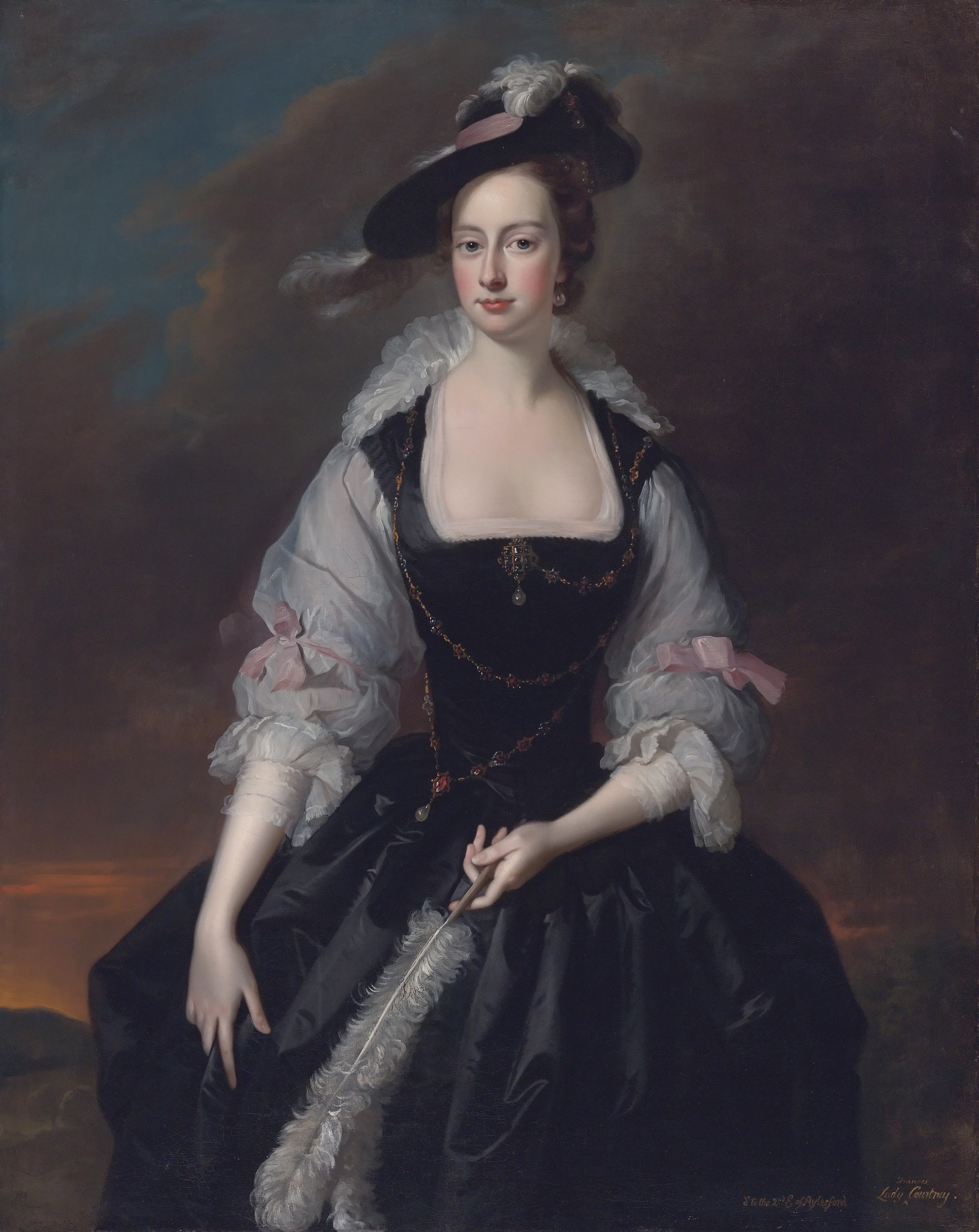 Frances Courtenay, wife of William Courtenay, 1st Viscount Courtenay. Sold by Sotheby's New York, Important Old Master Paintings and Sculpture, Thursday, January 26, 2012, Lot 199, estimate $ 50-70 K (Title : PORTRAIT OF LADY FRANCES COURTENAY) oil on canvas 127 x 101.6 cm inscribed l.r.: To the 2nd E. of Aylesford / Lady Francis Courtenay